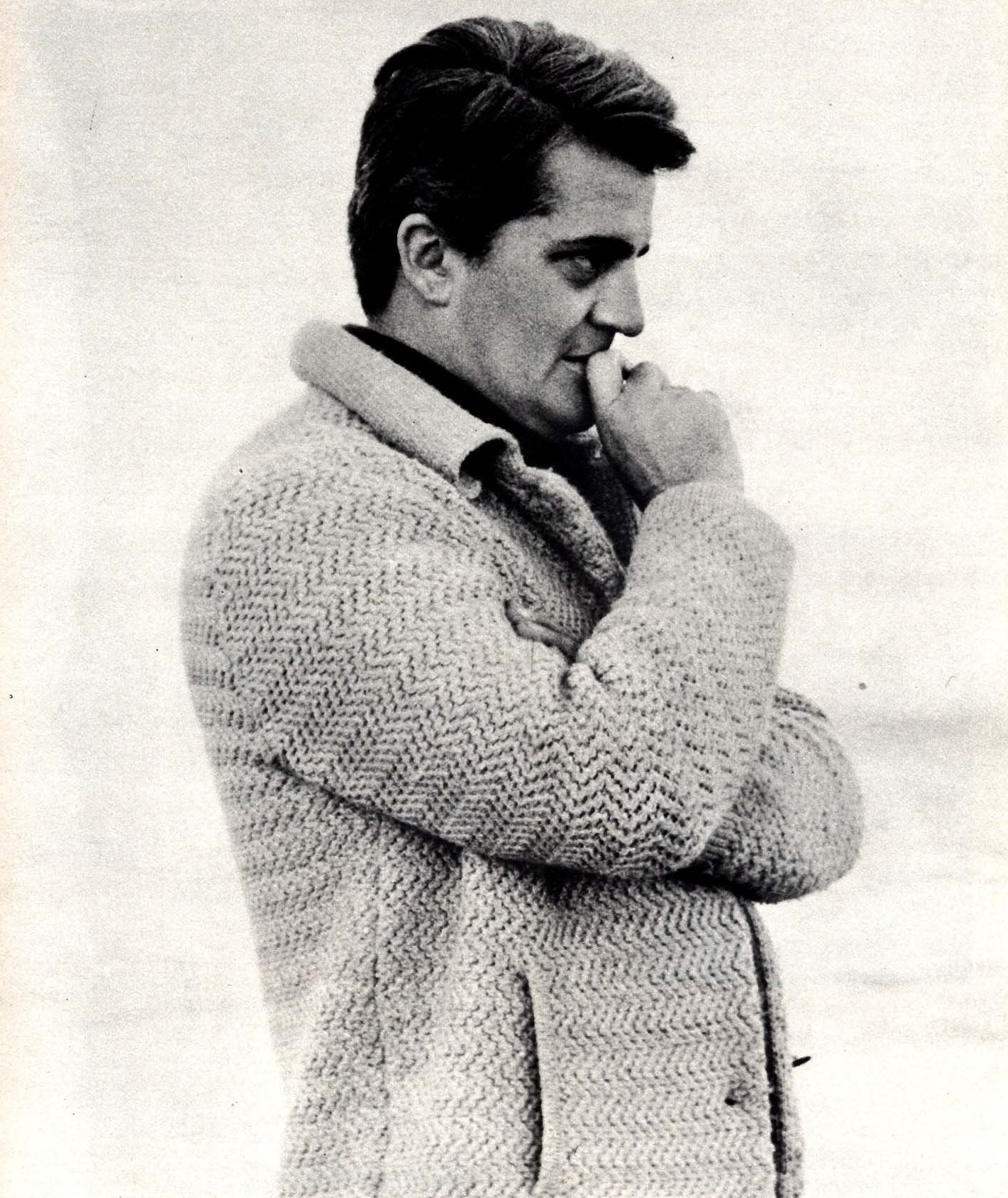 Italian actor and director Riccardo Fellini in Venice